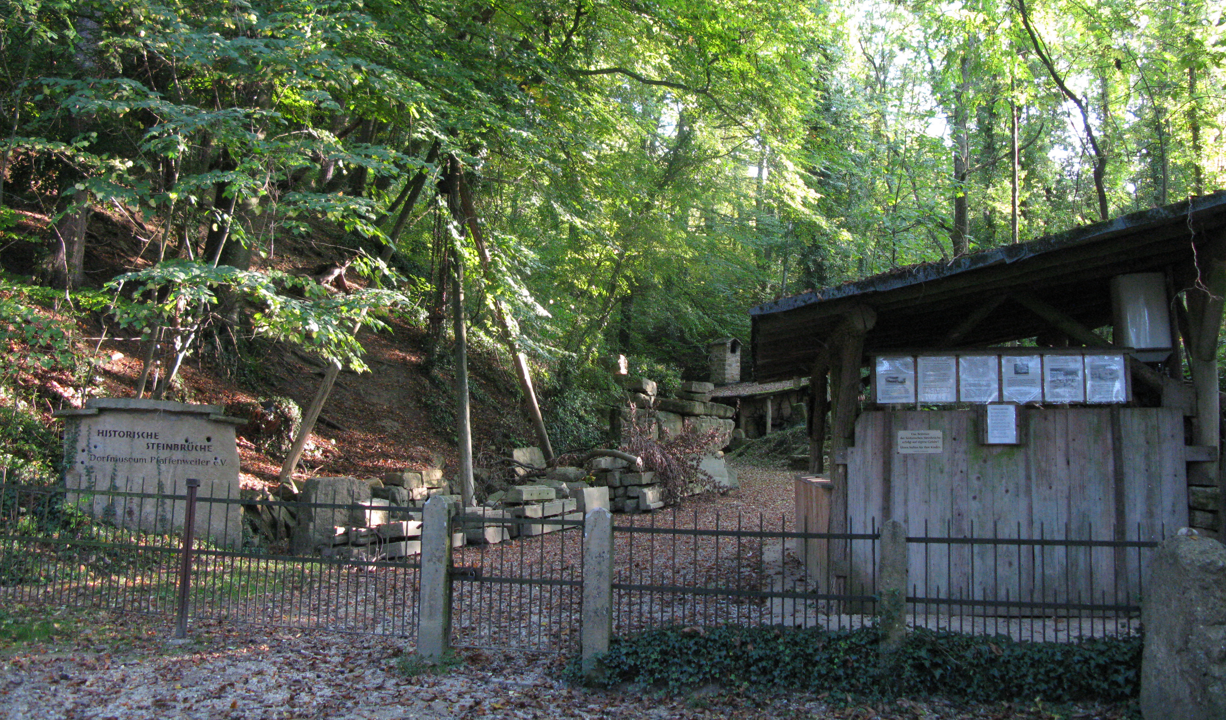 Pfaffenweiler, entrance of the historical quarry